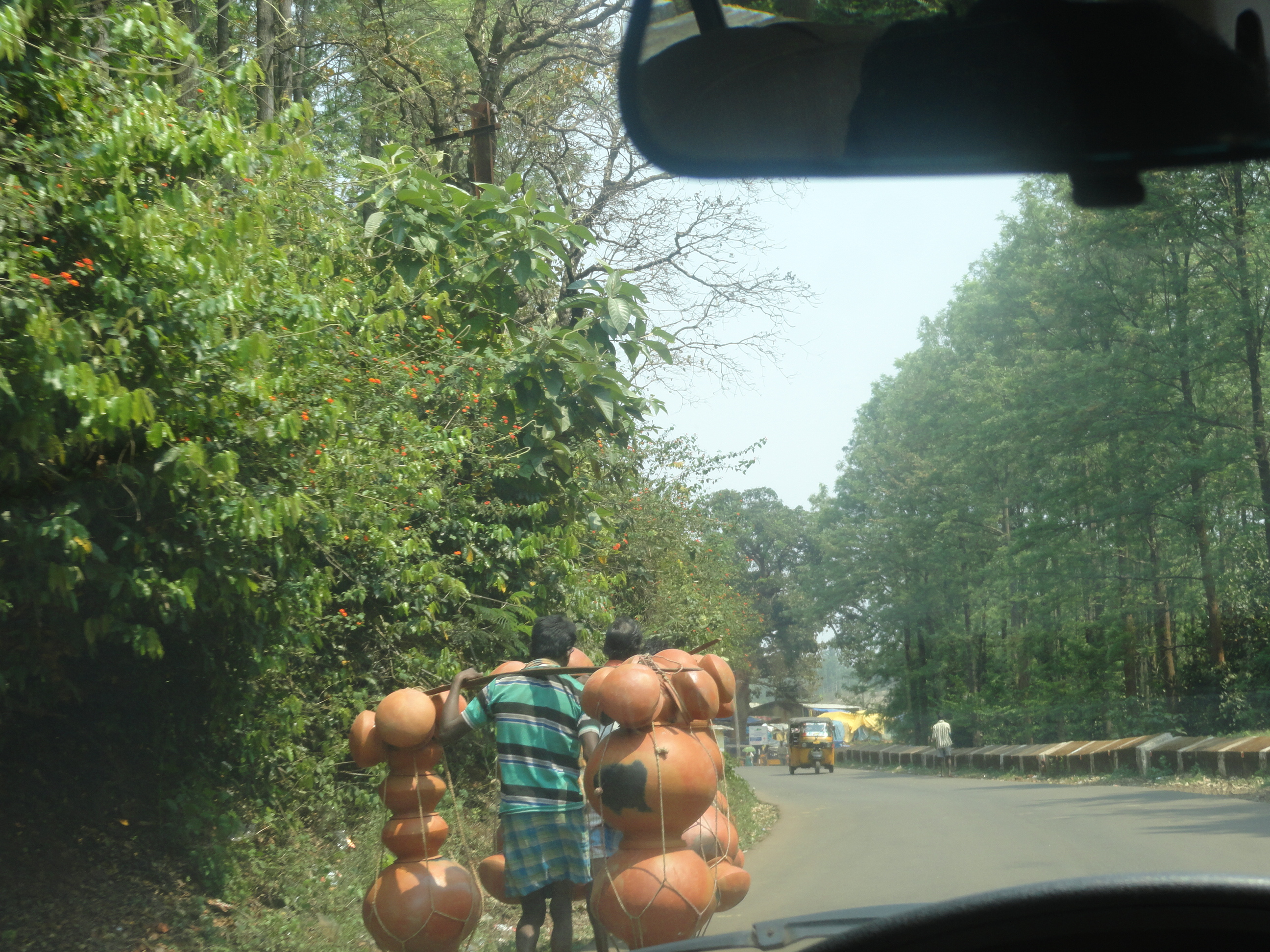 Carrying pots to the market at araku valley